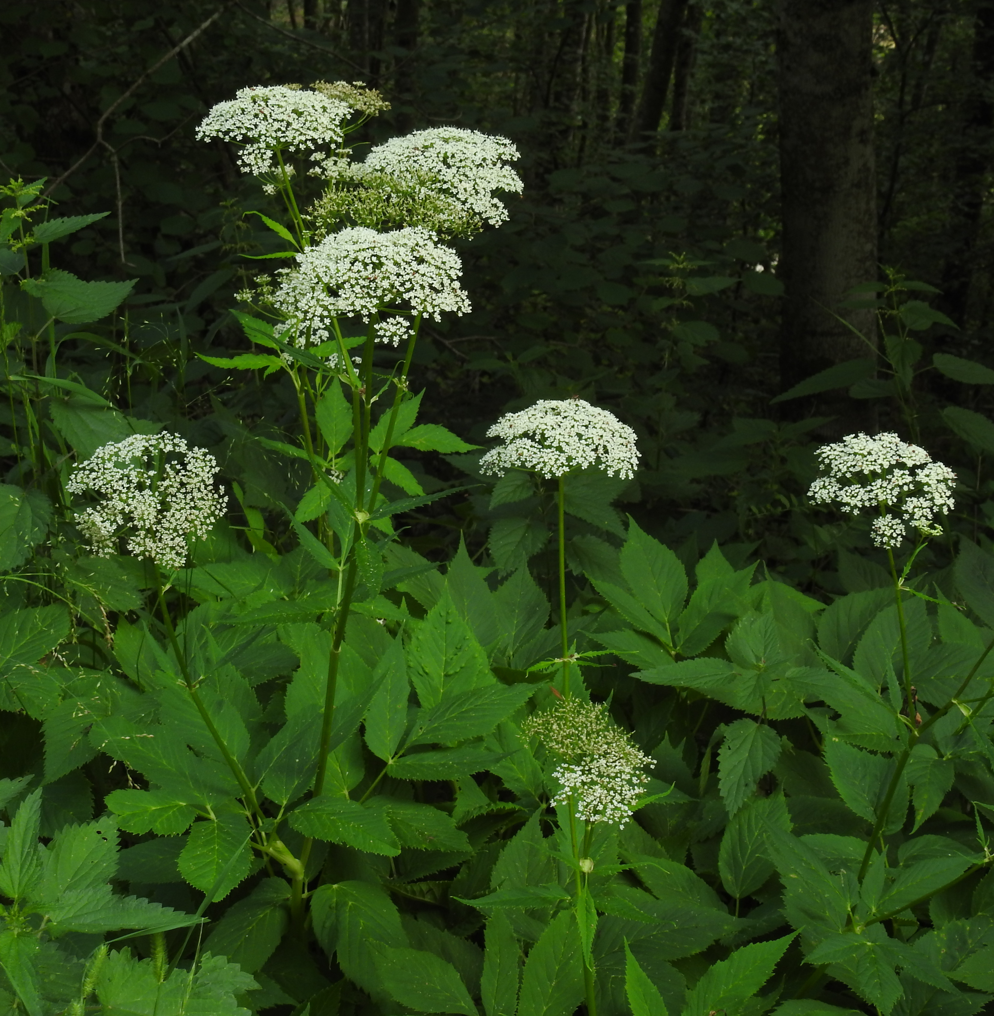 Ground elder (Aegopodum podagraria), between Neufra and Vorderlichtenstein